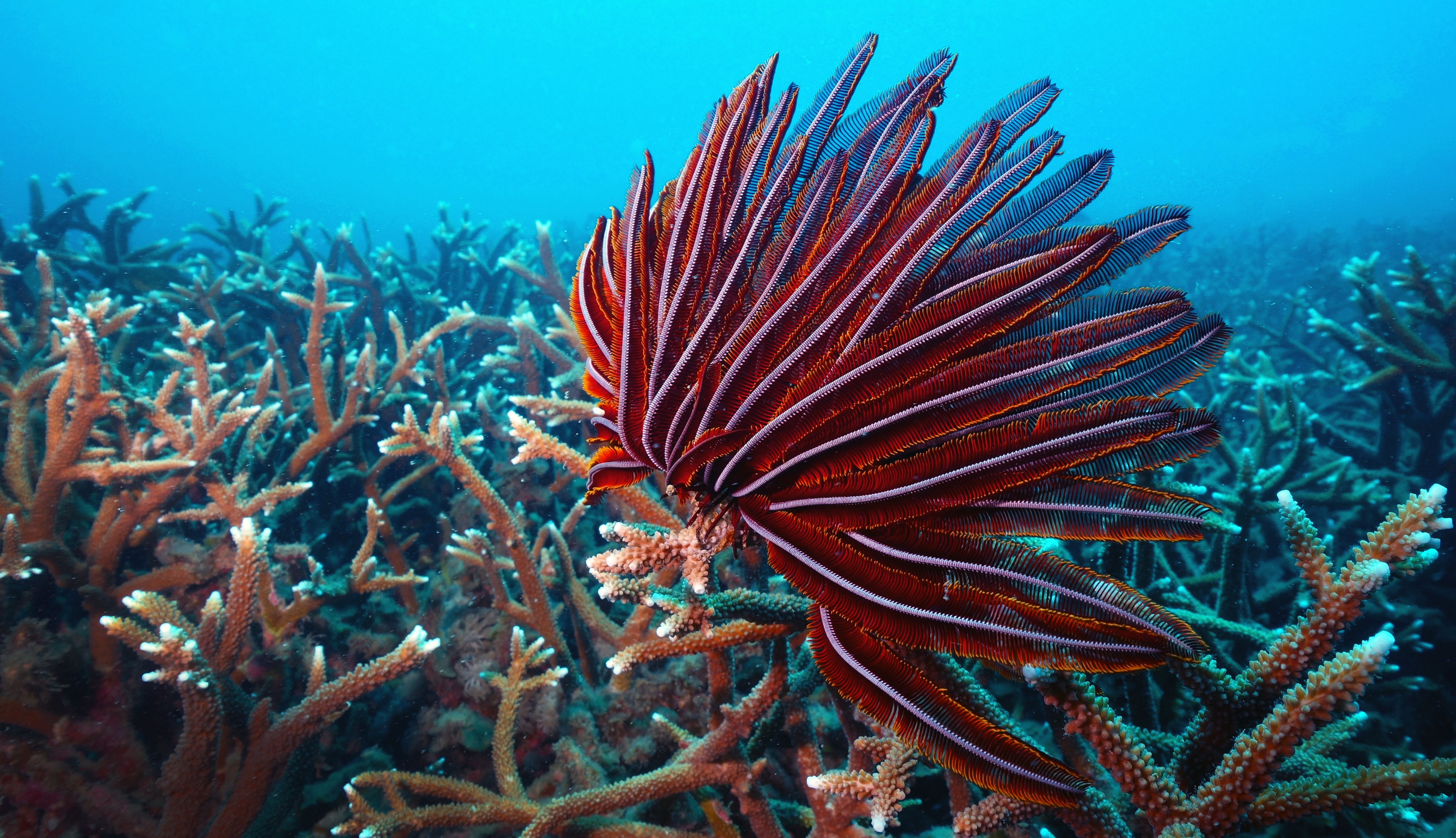 Crinoid (Himerometra robustipinna) - Feather Star, Barren Island Reef